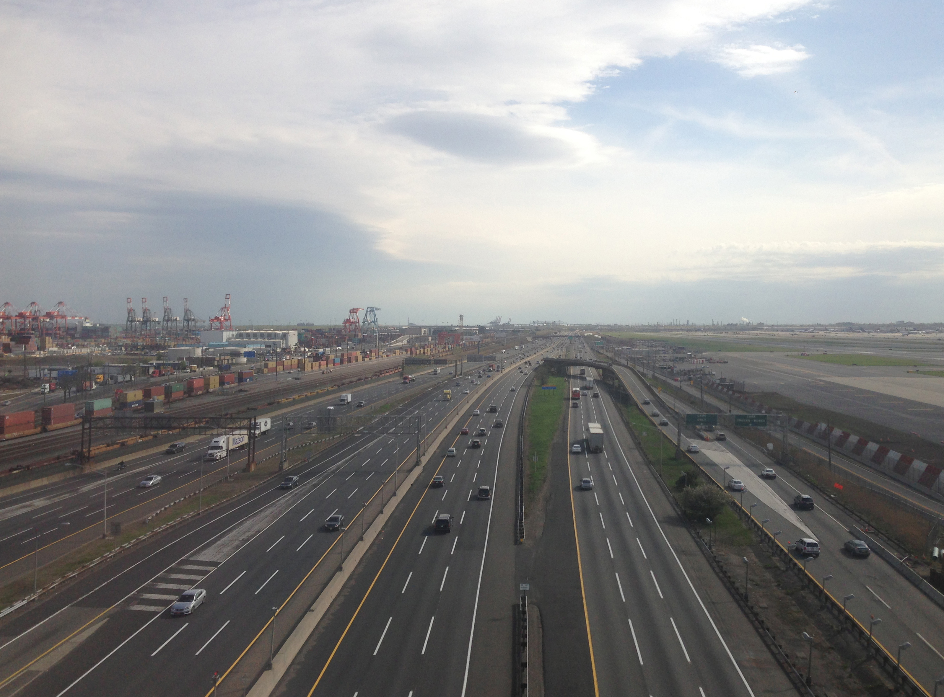 View of the New Jersey Turnpike mainline from an airplane heading for Newark Airport-cropped